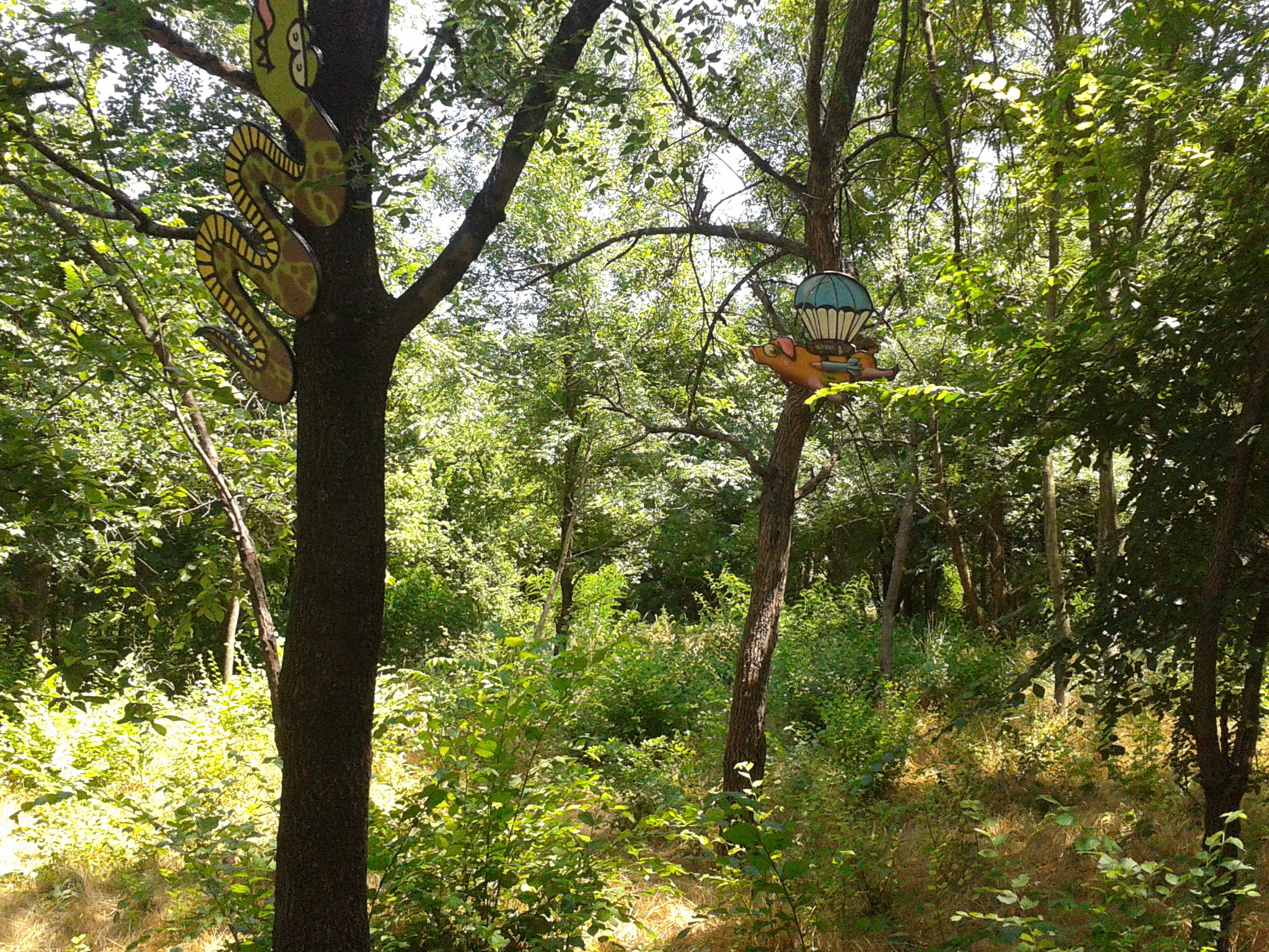 Lauta Park - Plovdiv